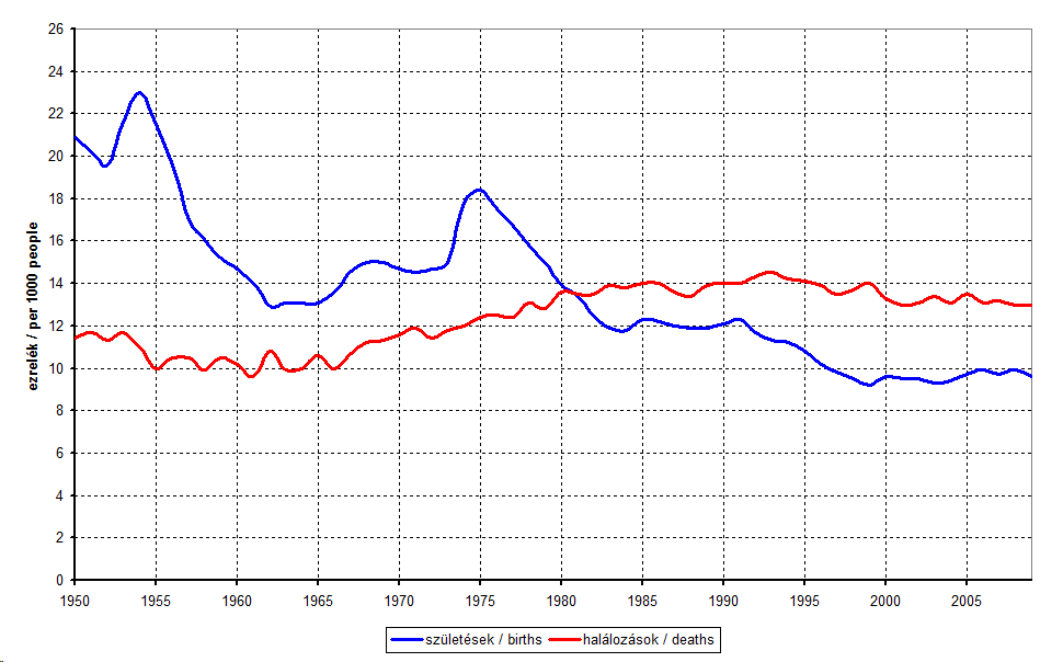 Hungary's birth and deaths (1950-2009).